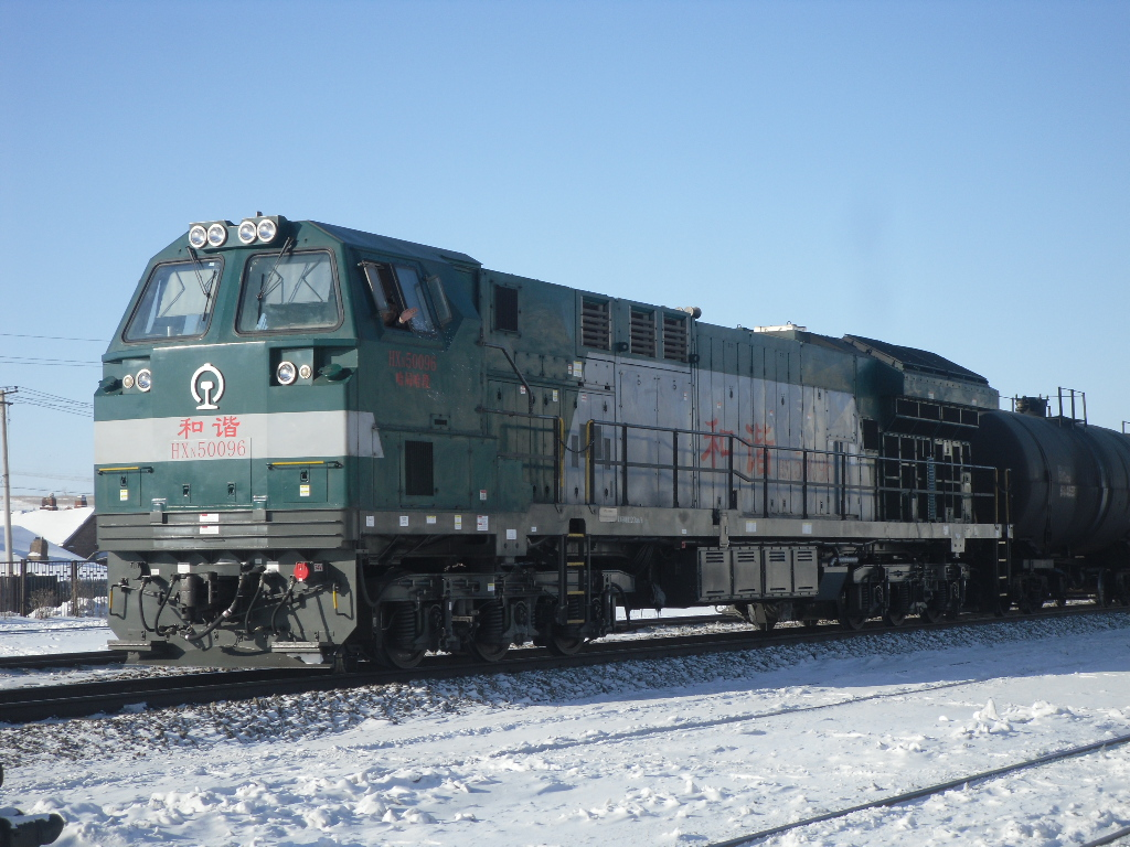 HXN50096 at Yakeshi Railway Station